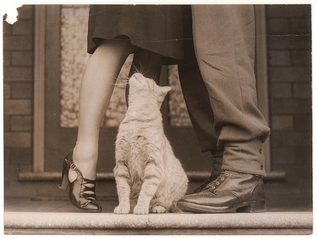 Soldier's goodbye & Bobbie the cat, ca. 1939-ca. 1945 / by Sam Hood Format: Photoprint Notes: Find more detailed information about this photograph: .au/item/itemDetailPaged.aspx?itemID=153383 Search for more great images in the State Library's collections: .au/search/SimpleSearch.aspx From the collection of the State Library of New South Wales